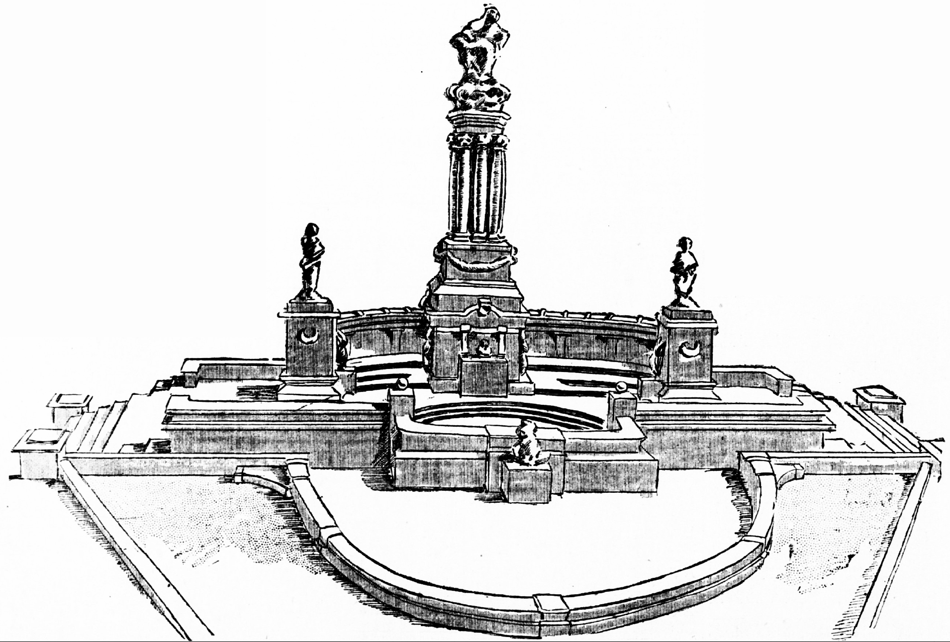 Original caption: The late Colonel J. Mervyn Donahue in his will provided that a fountain should be erected in San Francisco in honor of his father's memory, and that it should be dedicated to the mechanics of this city. The sum of $25,000 was devised for the erection of the fountain. An effort was made in the courts to set the provision aside, but the executors of the estate--Peter McGlynn and J. F. Burgin--insisted that the desire of the testator should be fulfilled, and the court decided in their favor. An order was adopted by the Board of Supervisors setting apart ample space at the intersection of Market, Battery and Bush streets on which to erect this fitting monument to the memory of Peter Donahue. The executors having $25,000 in hand and perceiving that the sum would procure a fountain graceful in design as well as massive and enduring were exceedingly anxious that the work should reflect credit on the artistic taste of California. There was no thought of having the mechanical work done elsewhere, but the question of inviting world-wide competitor for the design was discussed. The genius displayed by Douglas Tilden in his design for the Phelan fountain at the intersection of Market, Mason and Turk streets convinced the executors that it would not be necessary to look beyond this city for a beautiful and artistic design. Mr. Tilden was therefore commissioned to submit a design and erect the fountain in accordance with the model. It was stipulated by the executors that the design should be acceptable to them. He began the work and may in his first effort please the executors. The accompanying illustration is from a sketch in clay of a design from which Mr. Tilden will, within the next ten days, make a finished cast and present it to Messrs. McGlynn and Burgin for their approval.